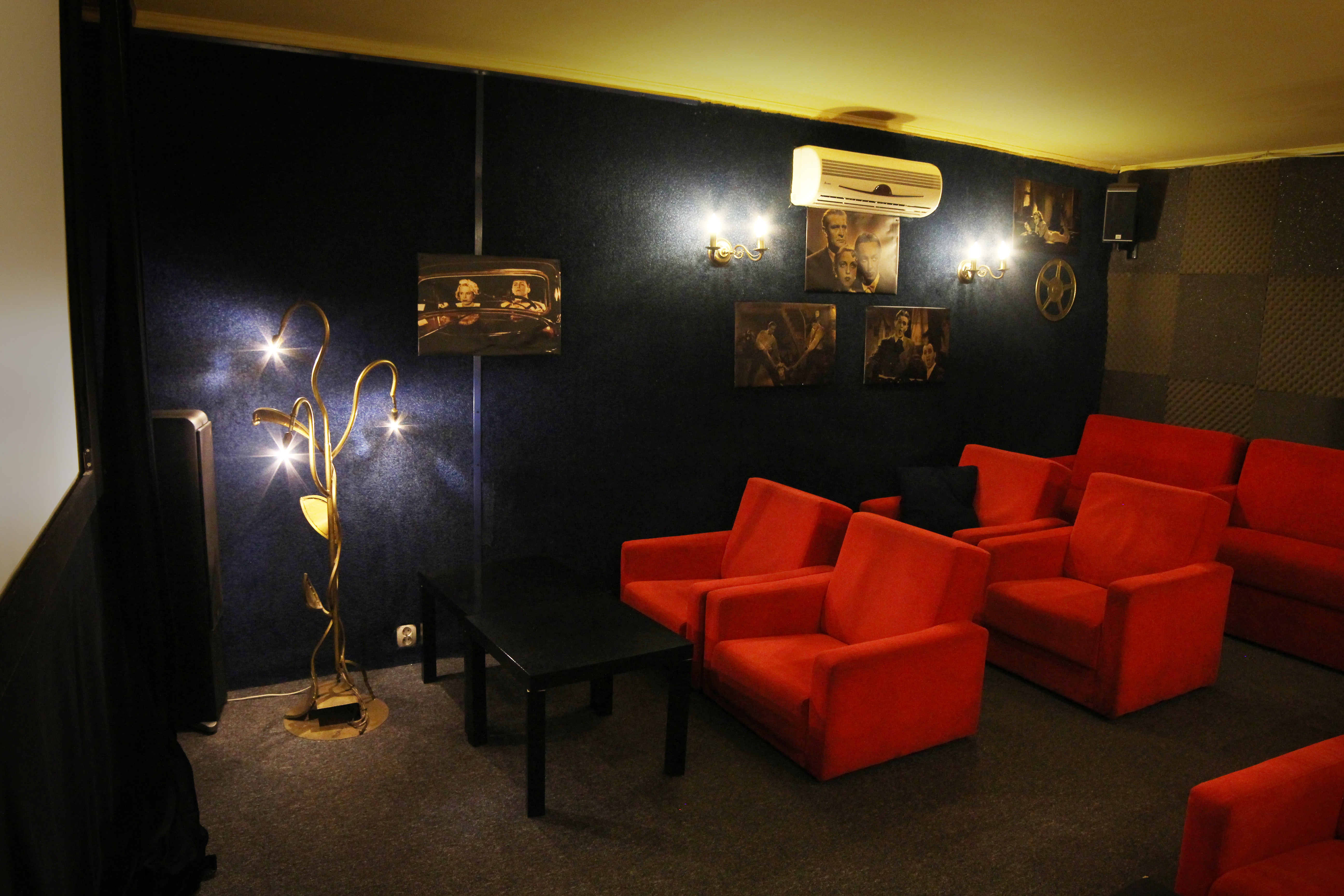 Kino Mikro, studio cinema in Kraków, Poland, at Lea Street 5. It has been active since 1959, since April 7, 1984 as the Mikro & Mikroffala Film Club.